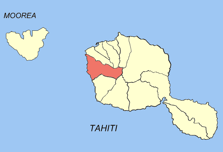 Map of Tahitian communes — Puna’auia